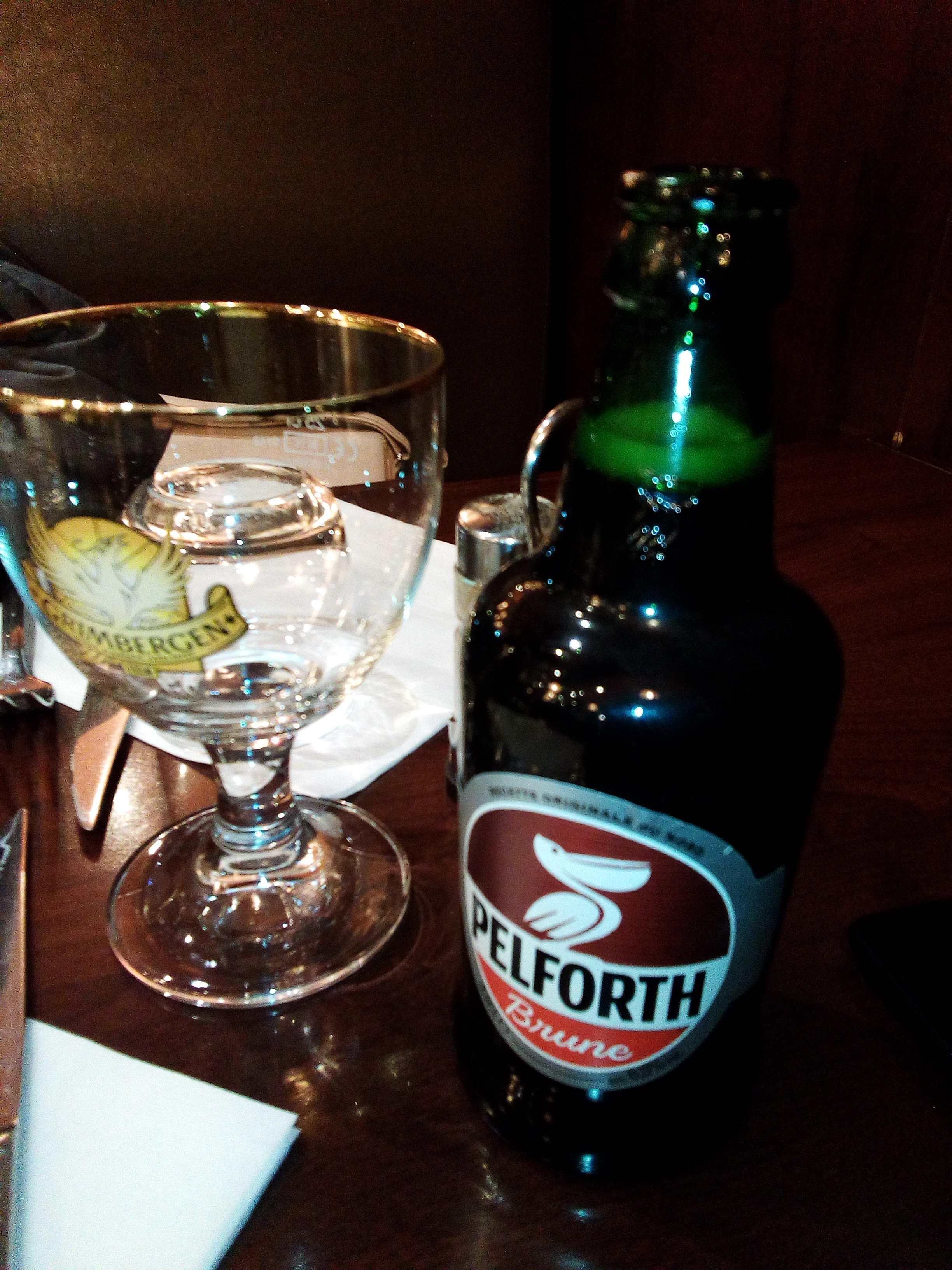 Pelforth Brune with glass